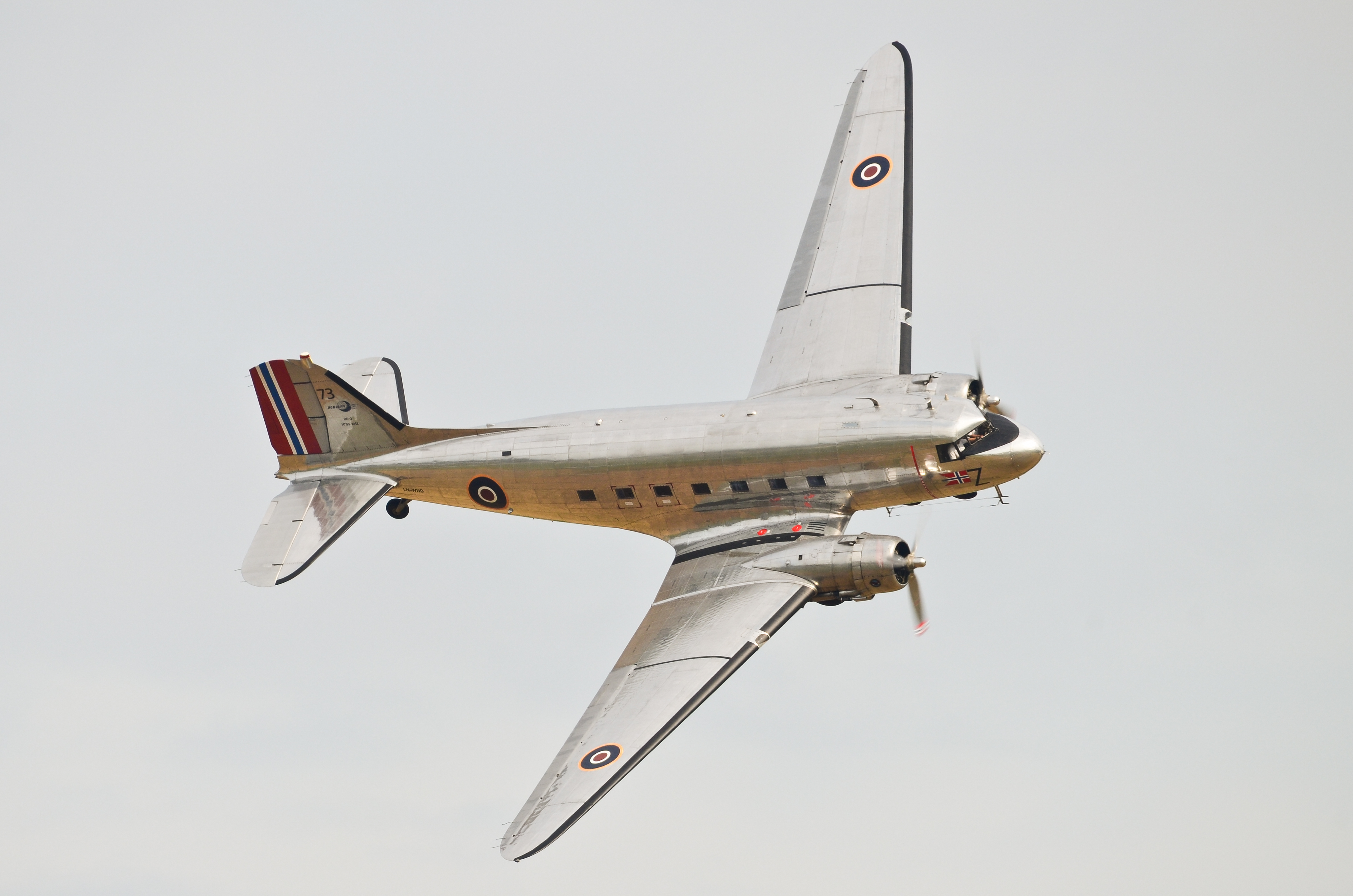 DC3 Dakota. Flying Legends 12th July 2014 IWM Duxford